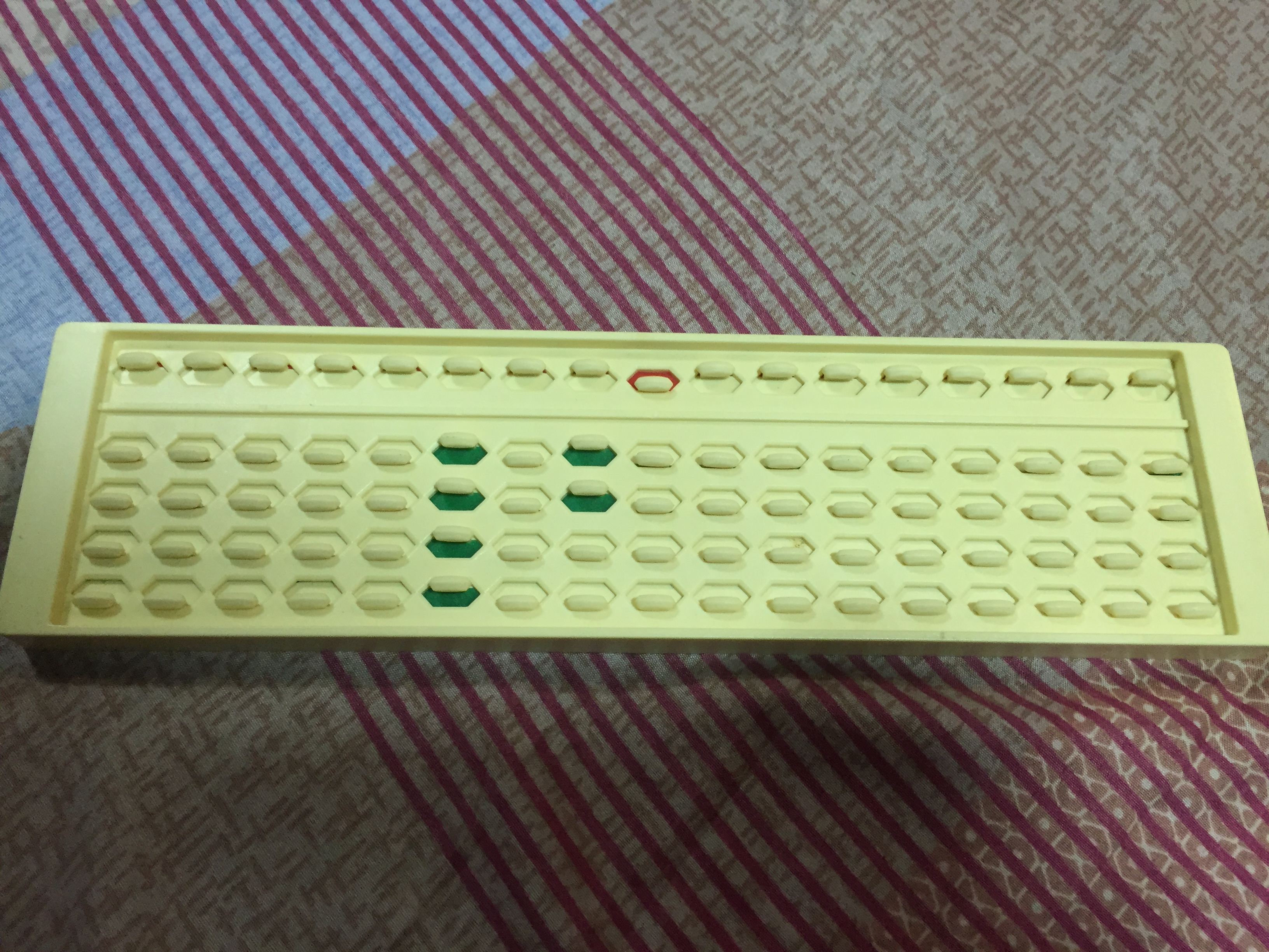 The photo shows a fully molded abacus that uses sliders instead of beads and represents value in the form of color. The value of the abacus is 4025